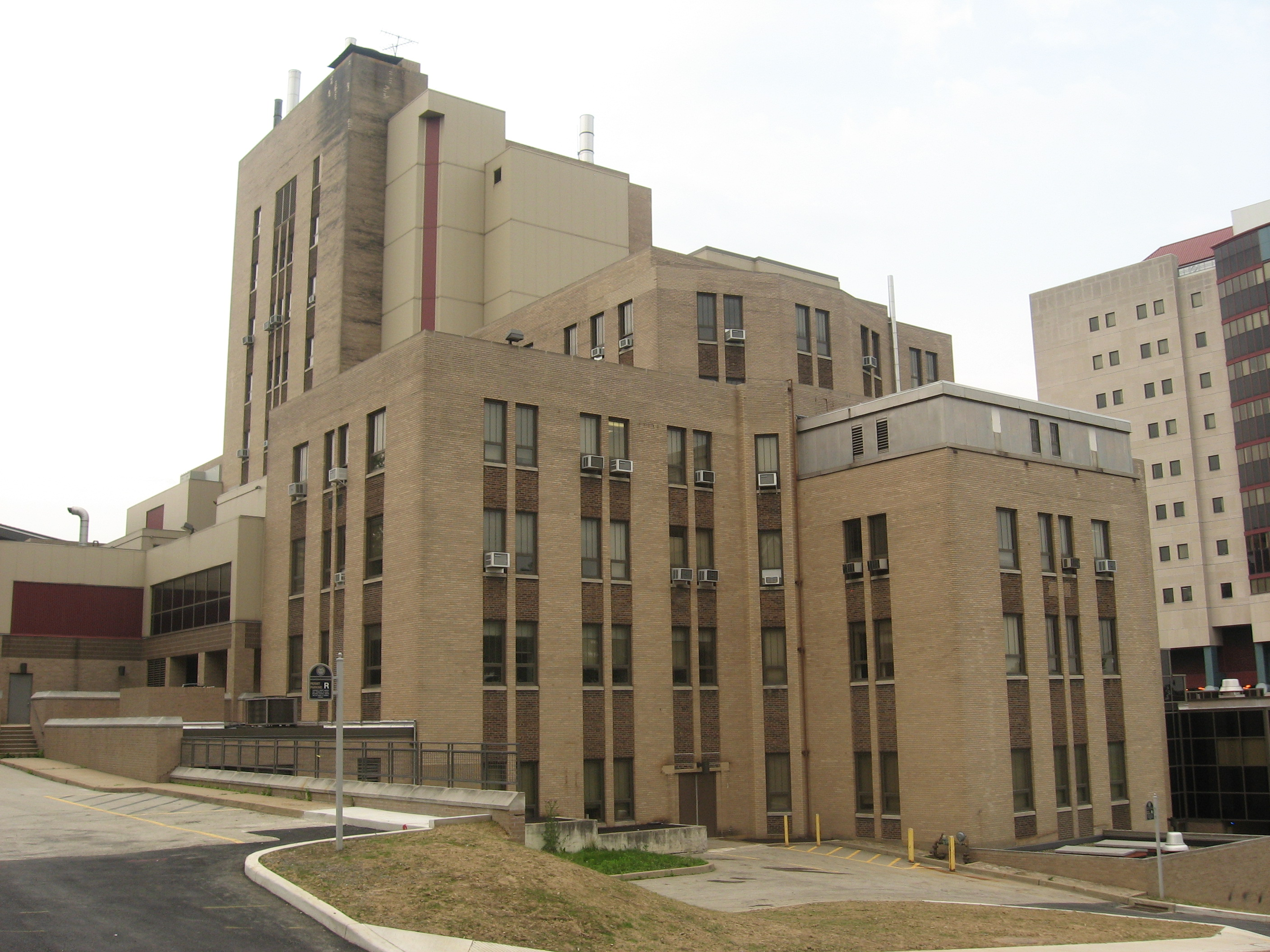 Salk Hall at University of Pittsburgh 40°26′33″N 79°57′47.3″W / 40.4425°N 79.963139°W